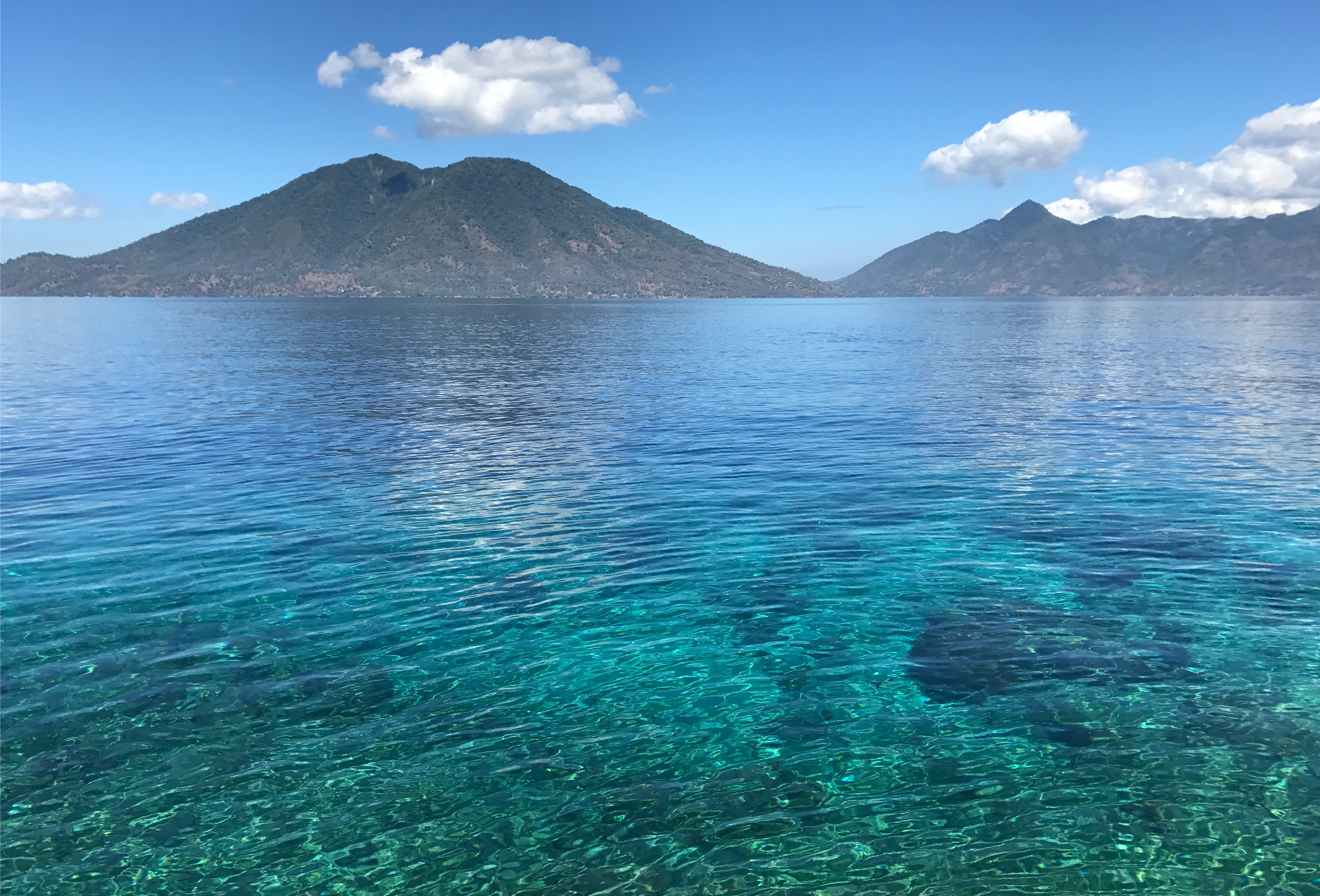 Beautiful view and clear sky from Pura Island - Alor - East Nusa Tenggara